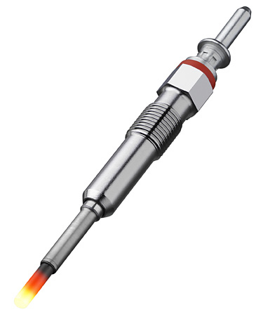 ceramic glow plug